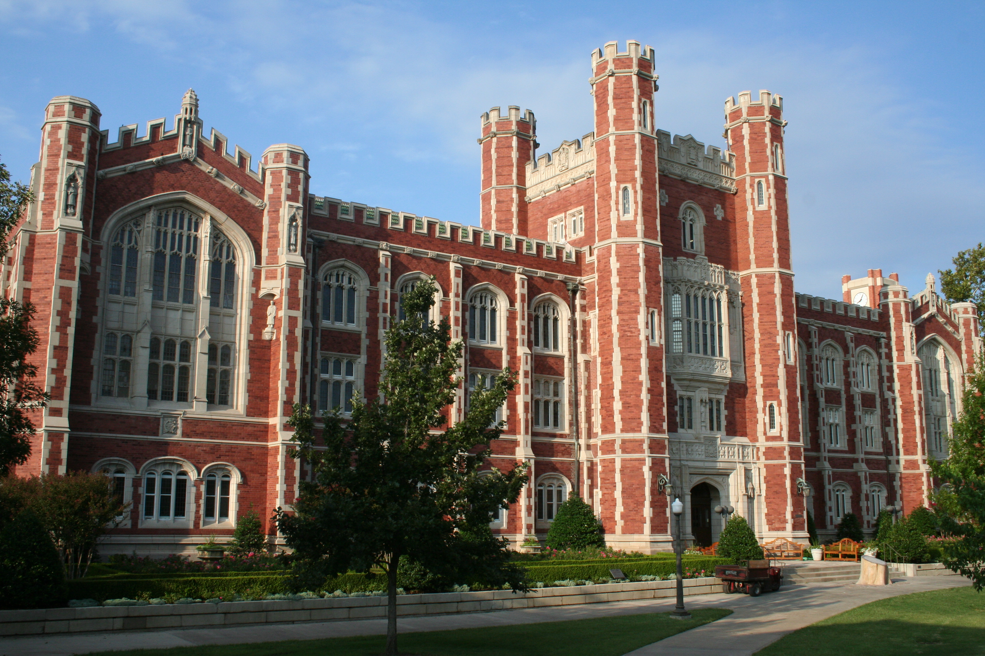 University of Oklahoma, Evans Hall